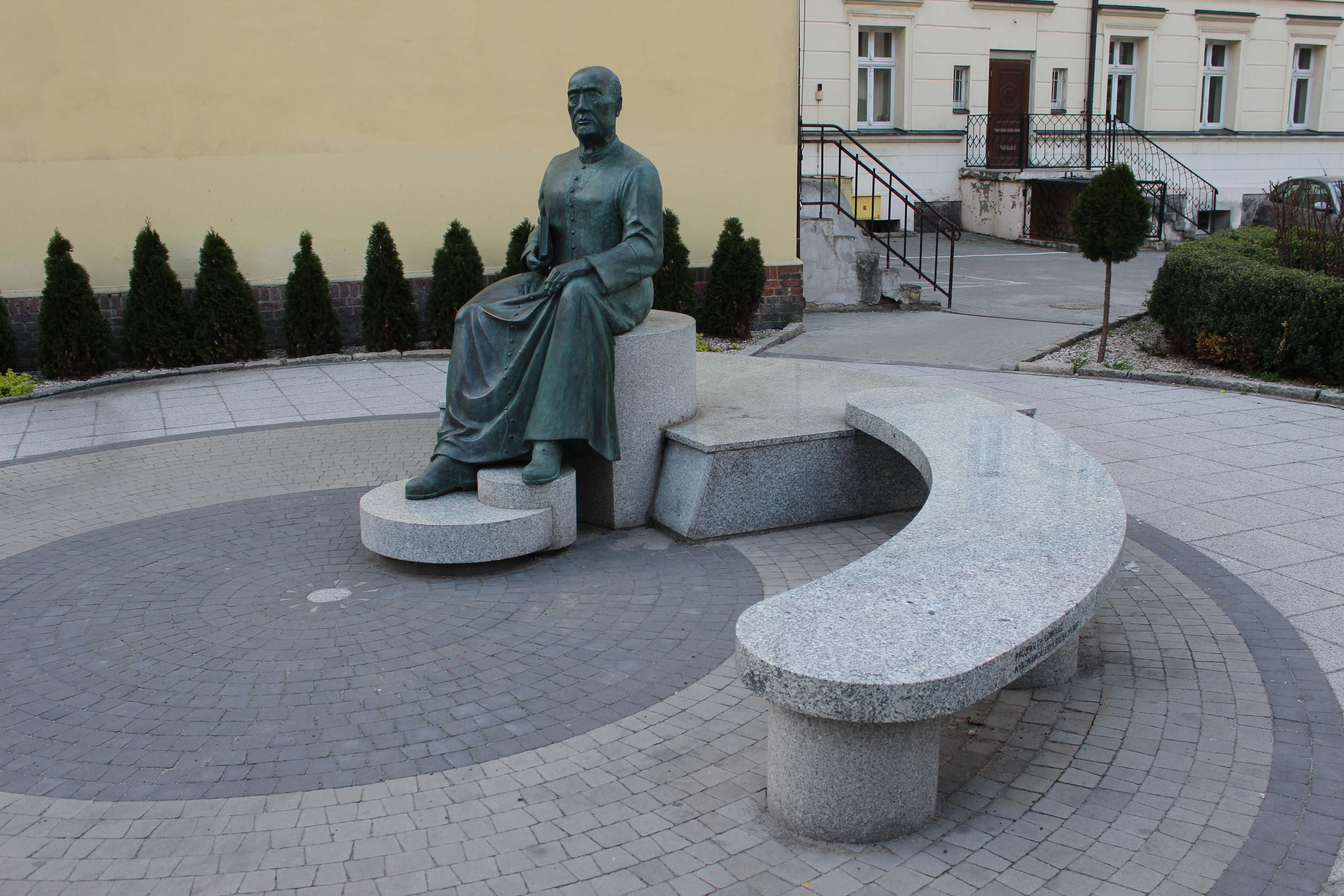 Augustyn Szamarzewski Monument in Środa Wielkopolska